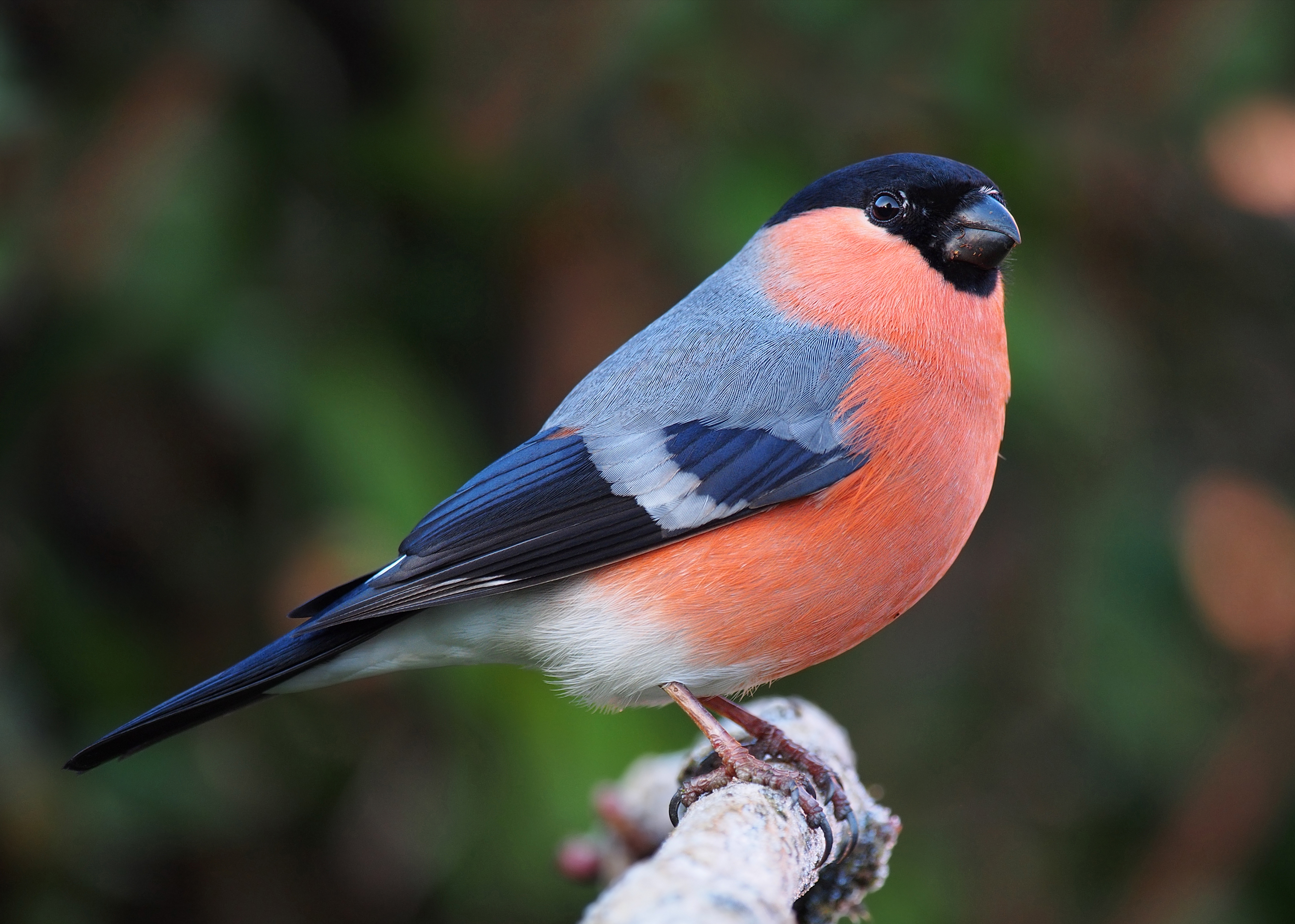 Eurasian bullfinch, Pyrrhula pyrrhula, male. Lancashire, UK.